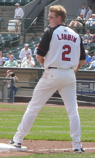 Rochester Red Wings third baseman Chase Lambin on third.